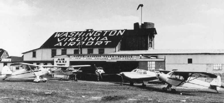 Main hangar of the defunct Washington-Virginia Airport located in Fairfax County, Virginia, circa 1960.